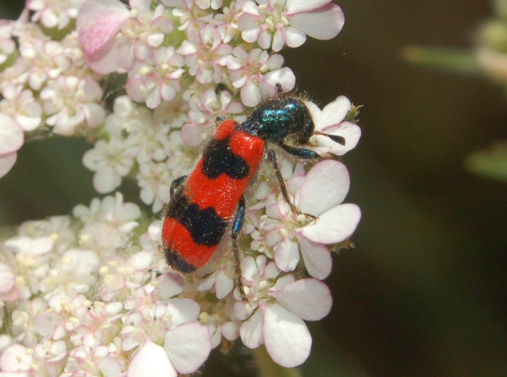 Trichodes apiarius